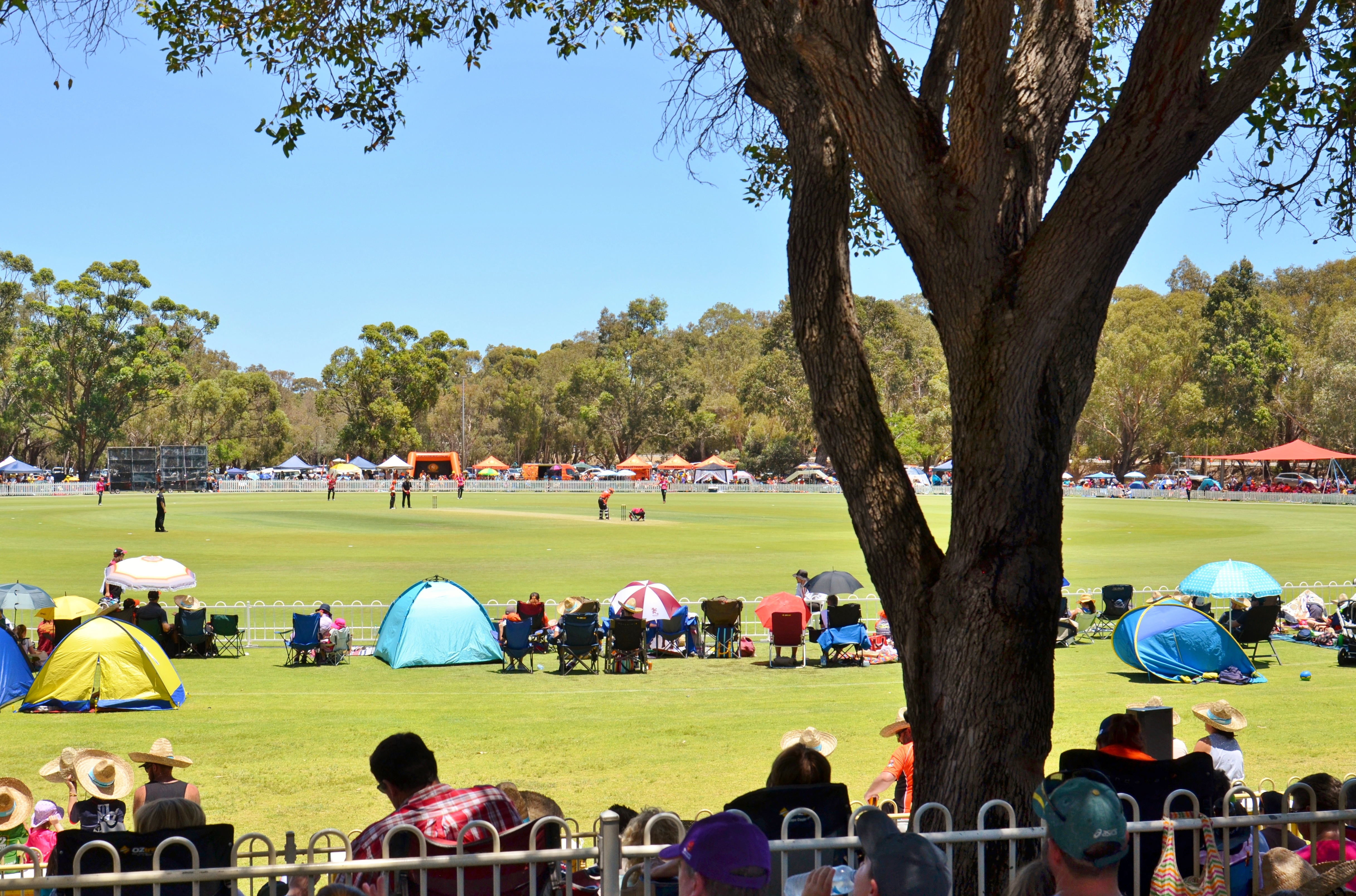 Kim Garth of the Sydney Sixers is about to bowl to Elyse Villani of the Perth Scorchers, during a WBBL match at Lilac Hill Park in Perth